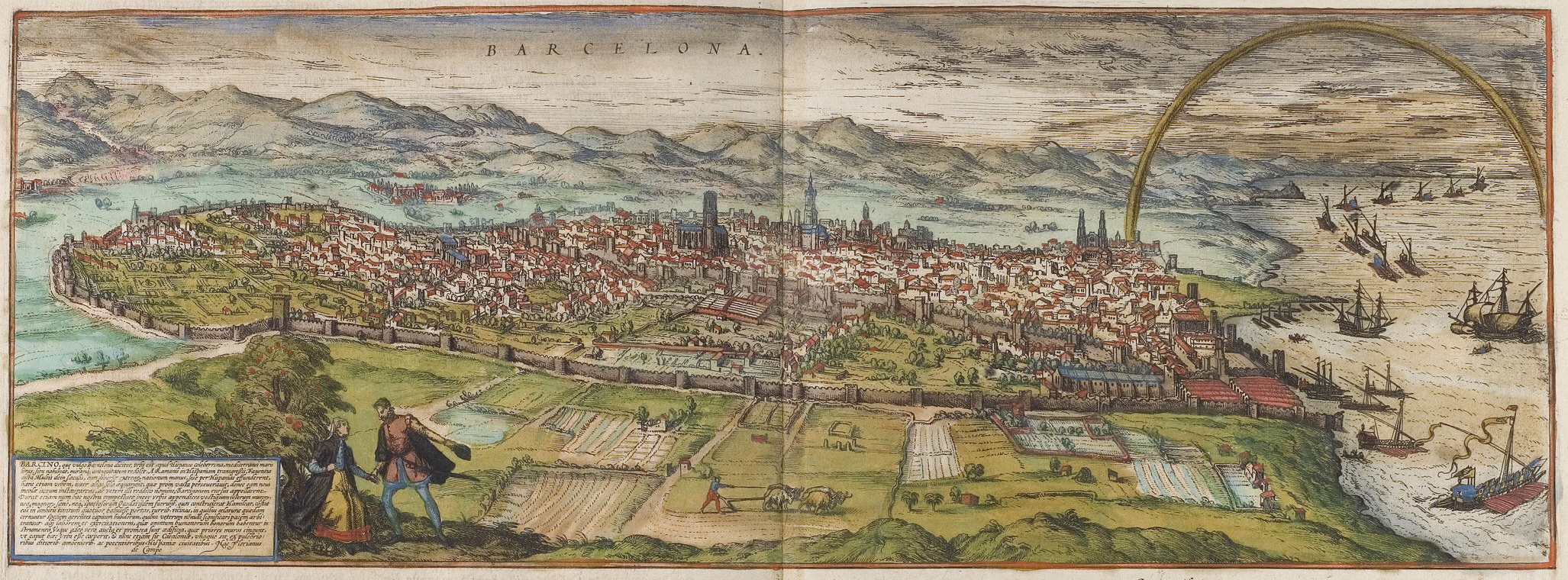 Barcelona in a view arround 1535 for the kind of galleys on the sea. In any case the picture dates before 1551 because it doesn't appear the bastion of the King that protected the Barcelona Royal Shipyard by the beach on the first section of the city wall (see File:Wyngaerde_Barcelona_1563.jpg). Plus, the rainbow at the background was a symbol of the imperial power used at the time of Charles V, Holy Roman Emperor. Source: Dahl Termens, Sílvia; Garcia Domingo, Enric; López i Miguel, Olga (2013) Les Drassanes Reials de Barcelona, Barcelona: Editorial Efadós, ISBN 978-84-15232-57-5, Dipòsit Legal B.27043-2013, page 50.